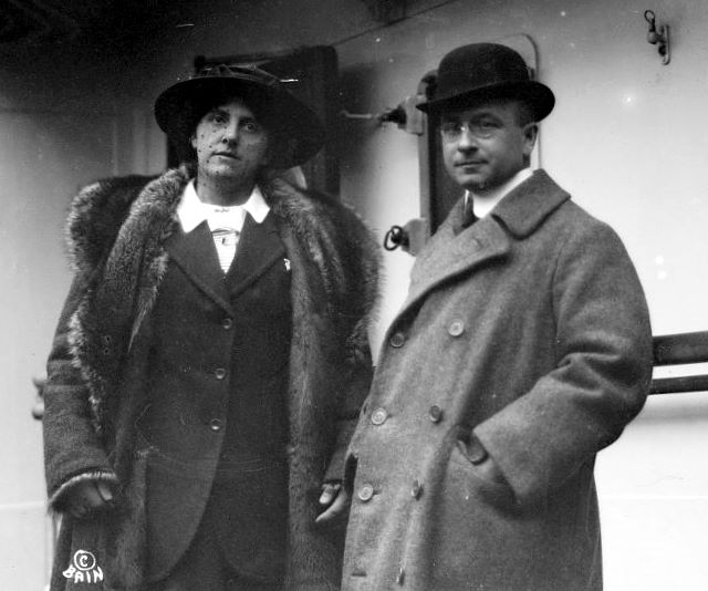 Dr. Alexis Carrel and wife